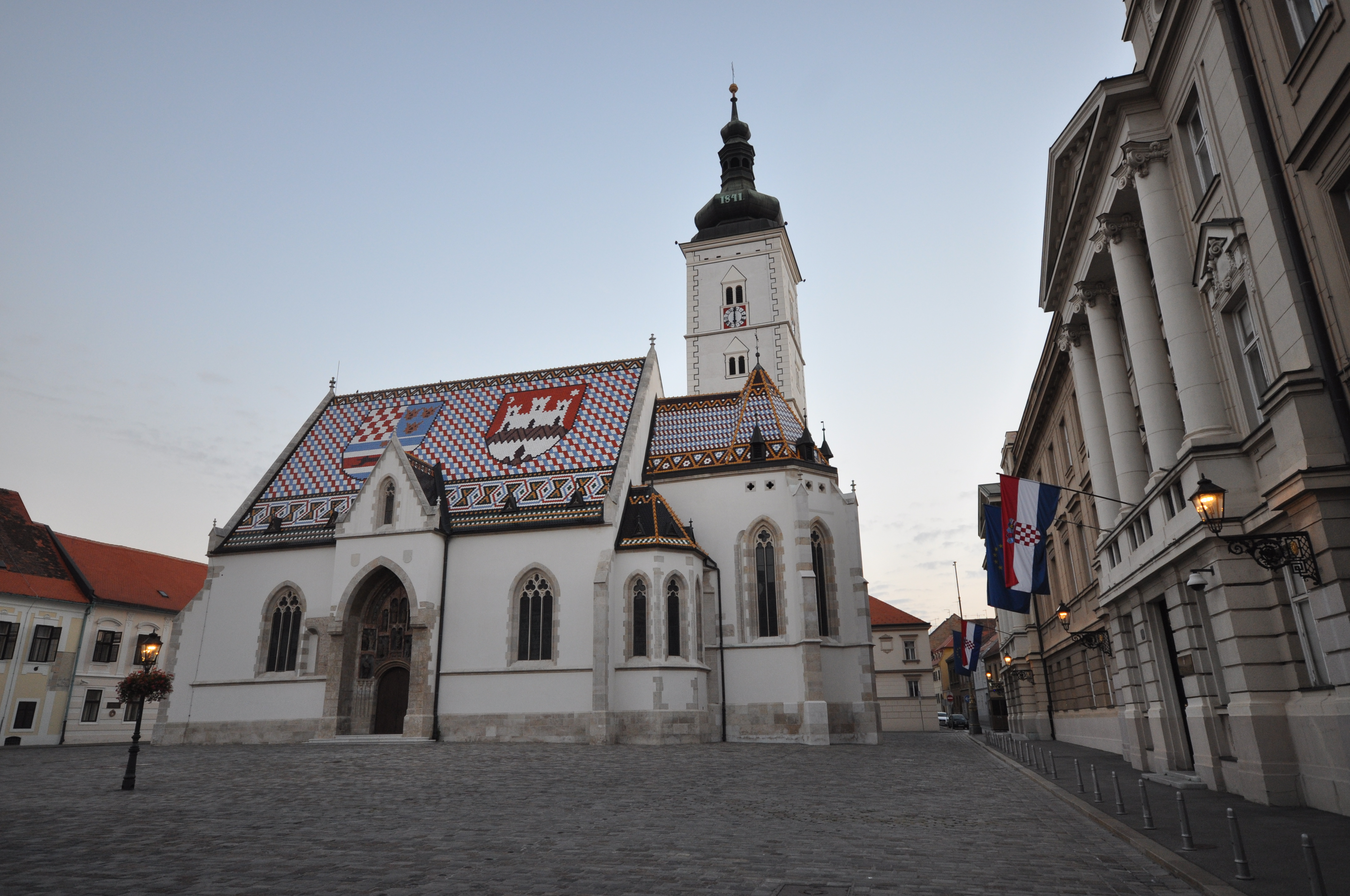 Church of St. Mark is the parish church of old Zagreb located in St. Mark's Square. Overview The Romanesque window found in its south facade is the best evidence that the church must have been built as early as the 13th century as is also the semicircular groundplan of St. Mary's chapel (later altered). In the second half of the 14th century the church was radically reconstructed. It was then turned into a late Gothic church of the three-nave type. Massive round columns support heavy ribbed vaults cut in stone and an air of peace and sublimity characterizes the church interior in its simplicity. The most valuable part of St. Mark's Church is its south portal, considered to be the work of sculptors of the Parler family from Prague (end of the 14th century). The Gothic composition of the portal consists of fifteen effigies placed in eleven shallow niches. On top are the statues of Joseph and Mary with the infant Jesus, and below them one can see St. Mark and the Lion; the Twelve Apostles are placed on both sides of the portal (four wooden statues replaced the original ones which had been destroyed). In its artistic composition and the number of statues, this portal is the richest and the most valuable Gothic portal in South Eastern Europe. Outside, on the northwest wall of the church lies the oldest coat of arms of Zagreb with the year 1499 engraved in it (the original is kept in the Zagreb City Museum). On the roof, tiles are laid so that they represent the coat of arms of Zagreb (white castle on red background) and Triune Kingdom of Croatia, Slavonia and Dalmatia. As the corner of St. Mark's Square and the present day Street of Ćiril and Metod, was a Town Hall, the seat of the city administration in medieval times. The building has gone through a number of alteration and reconstruction phases, and today this old Town Hall still keeps its doors open for the meetings of the Zagreb City Council